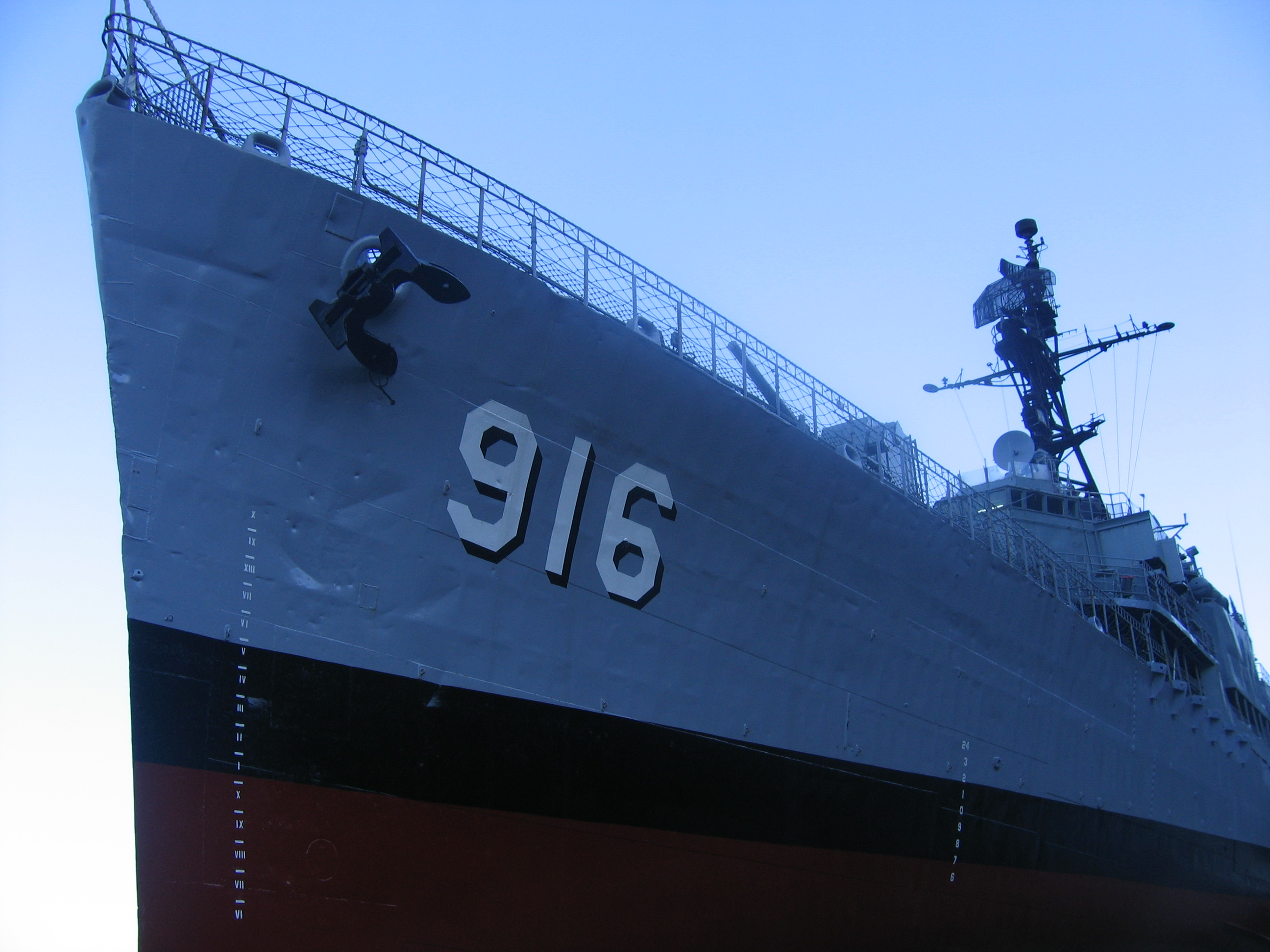 DD-916 JeonBuk of Korean Navy which was transferred from US Navy in 1972. DD-916 was originally DD-830 USS Everett F. Larson